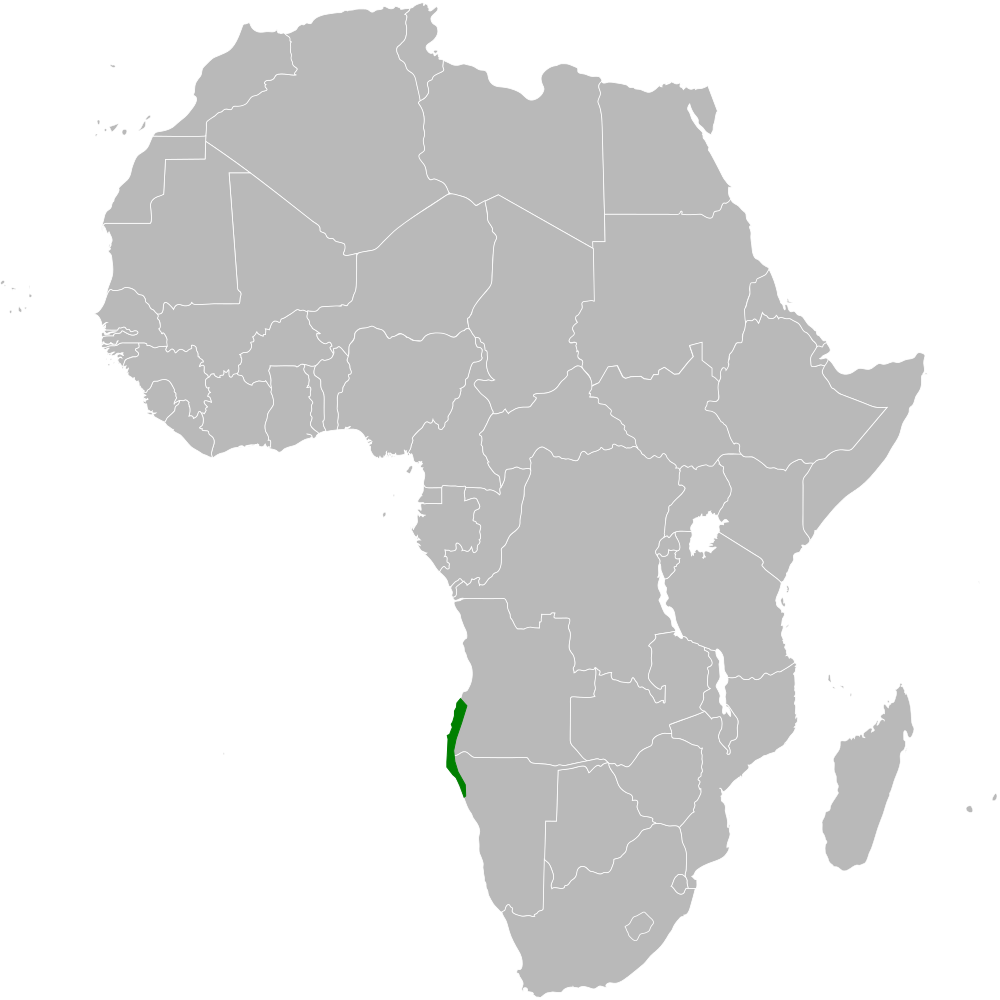 Certhilauda benguelensis distribution map; using Blank Map-Africa.svg, based on